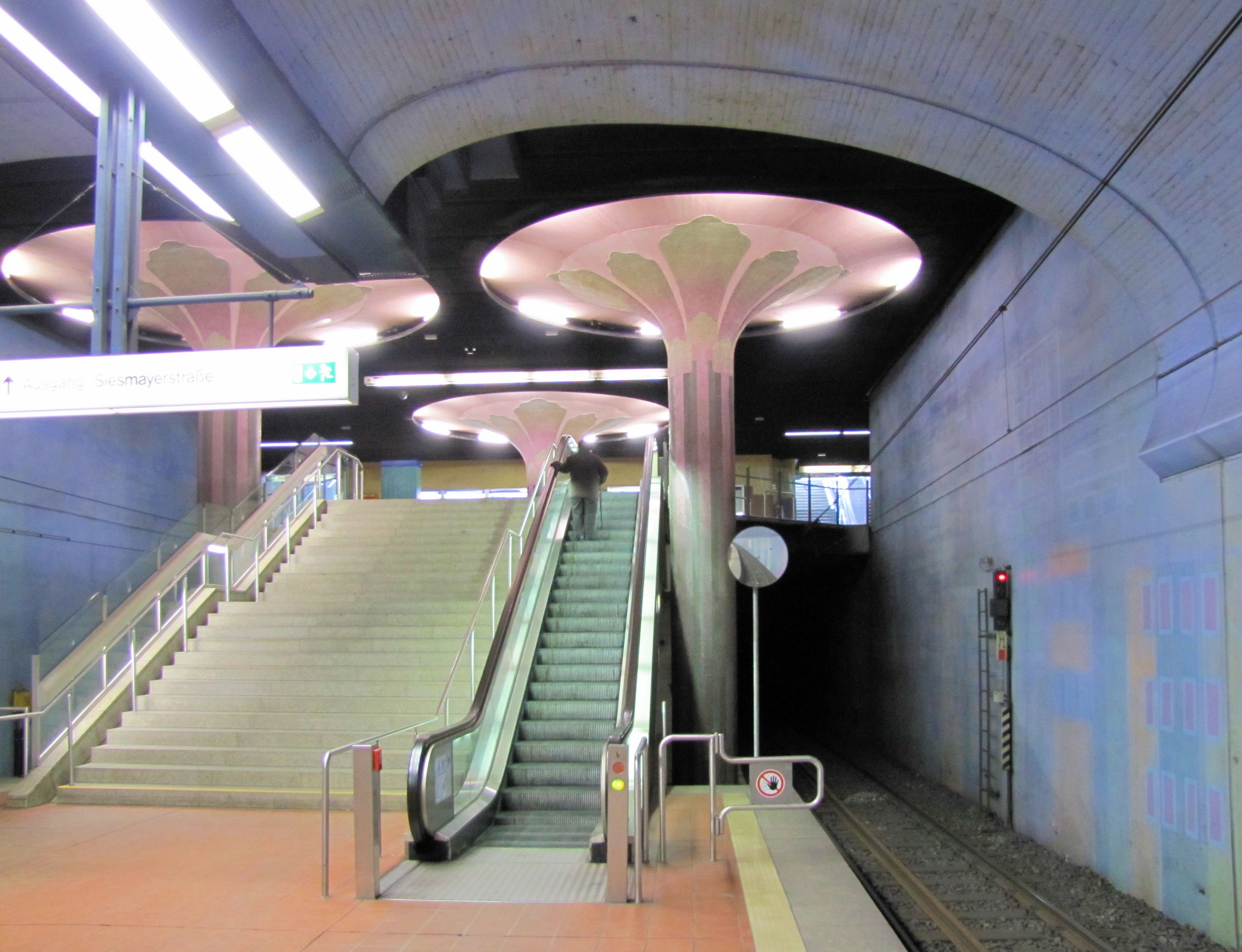 Underground station "Westend", of "U 6" + "U 7" (C-line), at Frankfurt-Westend, Germany.